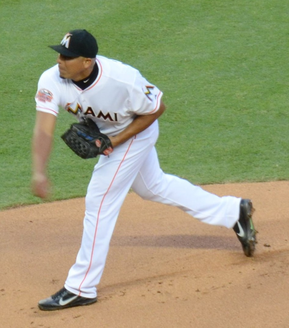 Carlos Zambrano